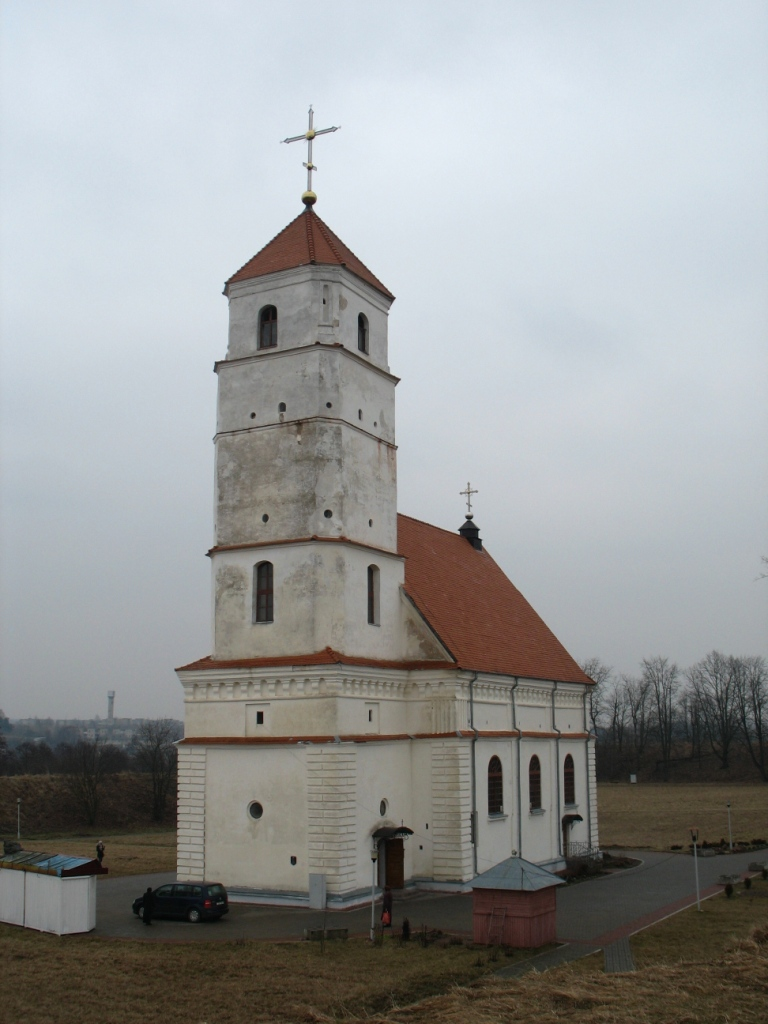 Church Zaslauje, Belarus